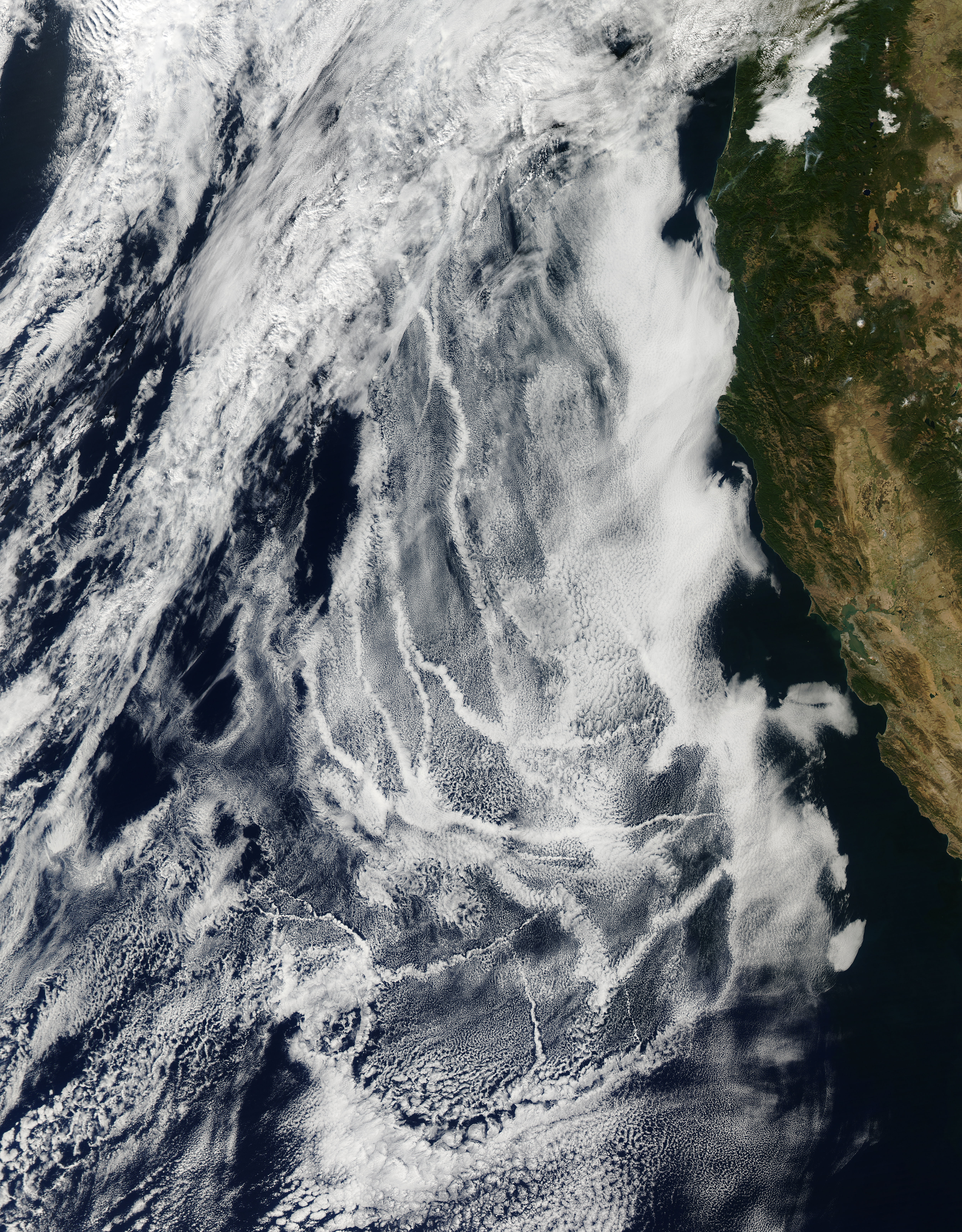 Lacy lines and long streaks decorated a bank of marine stratocumulus clouds off the west coast of the United States in early November, 2013. These bright white, highly reflective streaks are dense clouds created by particles in ship exhaust. As the ships sail the seas, they emit gasses and tiny airborne particles (aerosols). As the aerosols rise, they act as seeds (nuclei) for cloud formation. Water vapor condenses on them, and clouds are formed. Exhaust plumes of ships contain large numbers of cloud condensation nuclei, many more than is naturally present in the atmosphere. The high number of nuclei and the type of nuclei increase both the number of droplets formed, as also reduce the droplet size. The result is a more dense and highly reflective cloud than that formed from either dust or sea salt – two common types of condensation nuclei. Because of the higher reflectivity, these clouds appear brighter white than the background clouds. In this way, the tracks of ships can be written on the clouds. The Moderate Resolution Imaging Spectroradiometer (MODIS) aboard NASA’s Aqua satellite captured this true-color image on November 1, 2013. Such ship tracks are common phenomenon in this region, particularly in spring and fall.